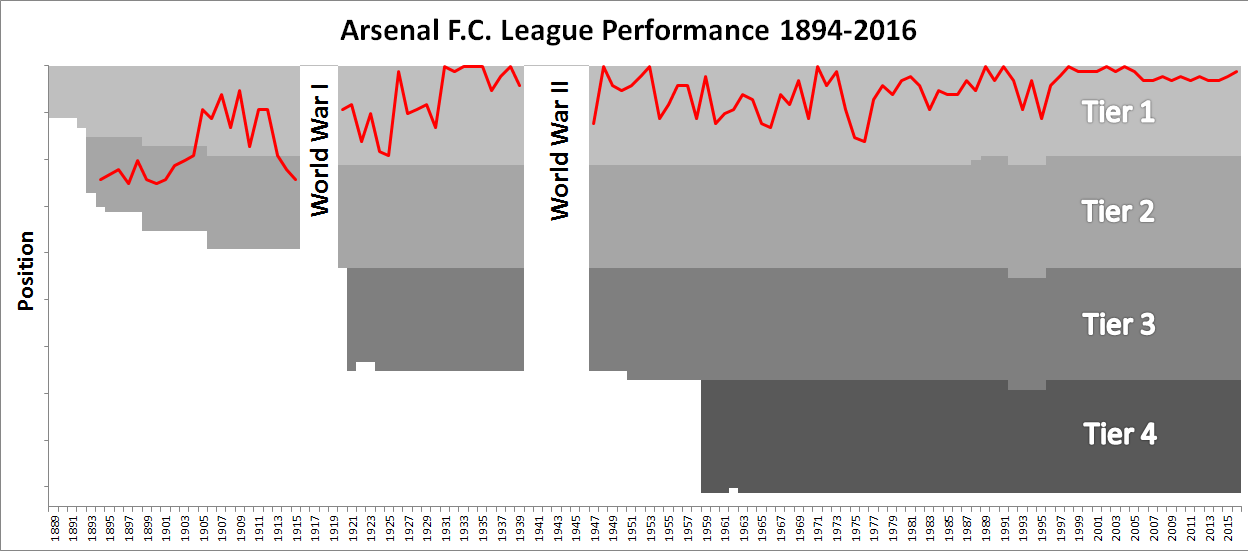 Chart showing the performance of Arsenal in the Football League and Premier League